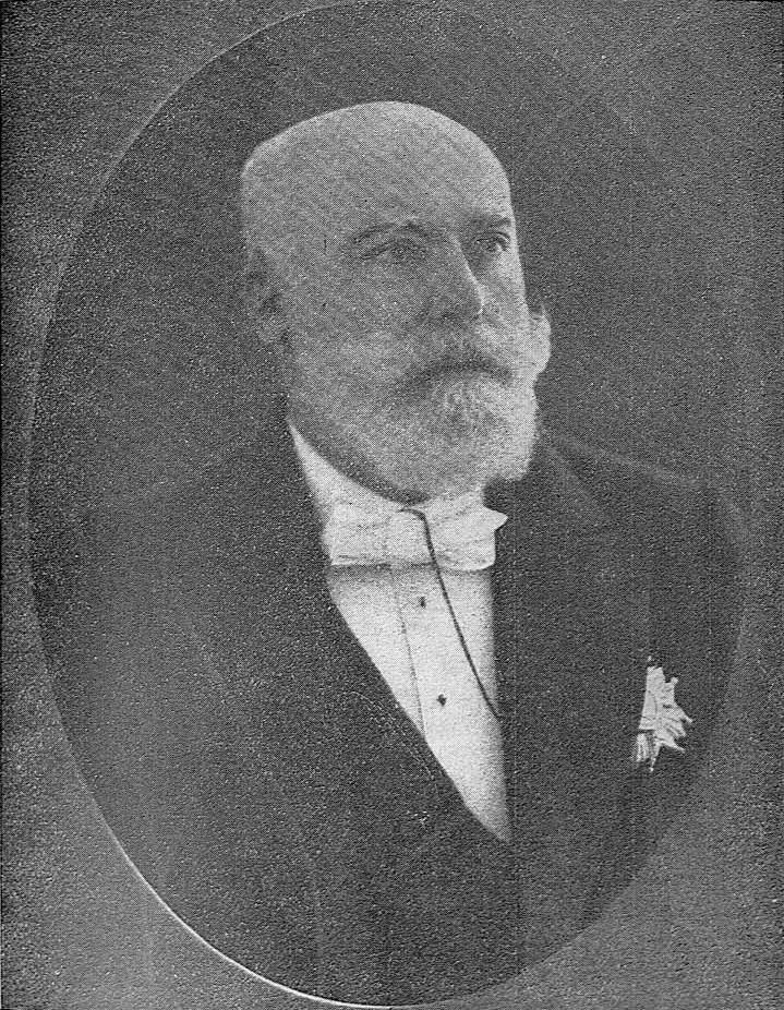 Photograph of Paul Eyschen (1841 – 1915), Prime Minister of Luxembourg from 1888 until 1915.